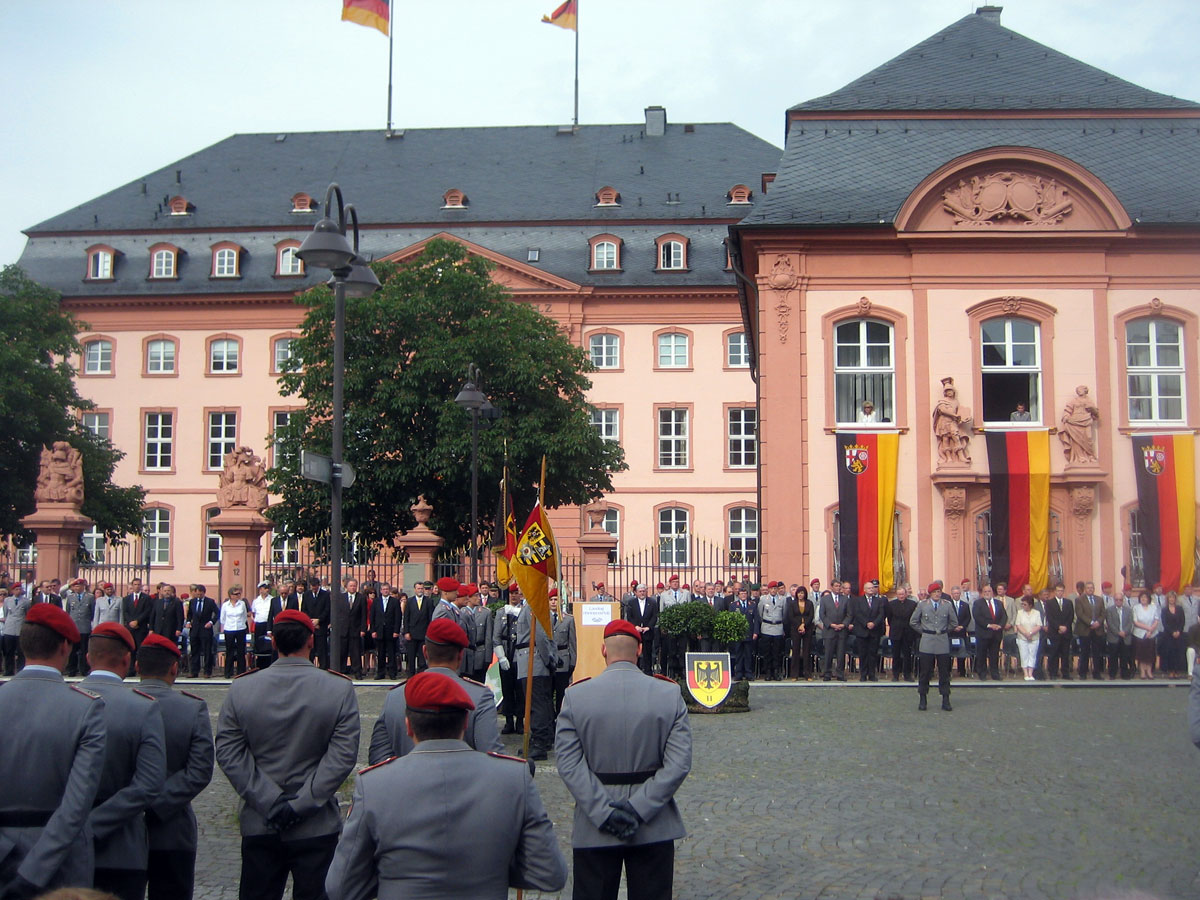 Ceremonial Oath in front of the Landtag of Rhineland-Palatinate on May 27th, 2008.